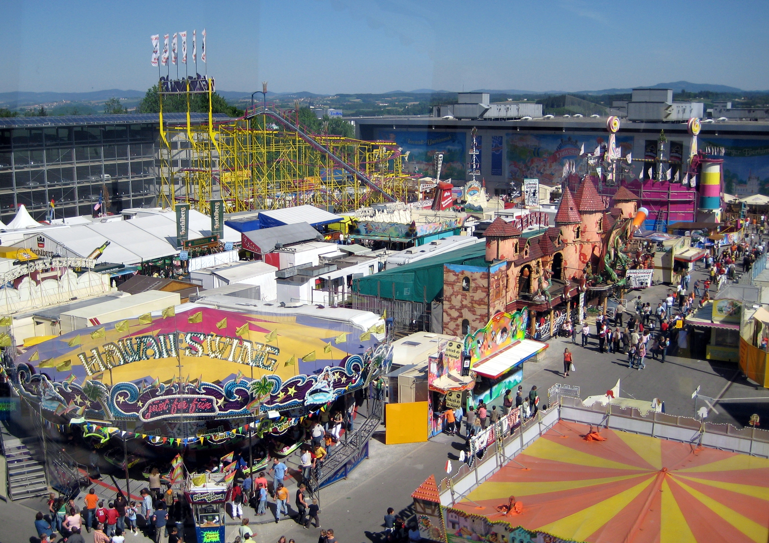 Funfair „Maidult“ 2007 in Passau